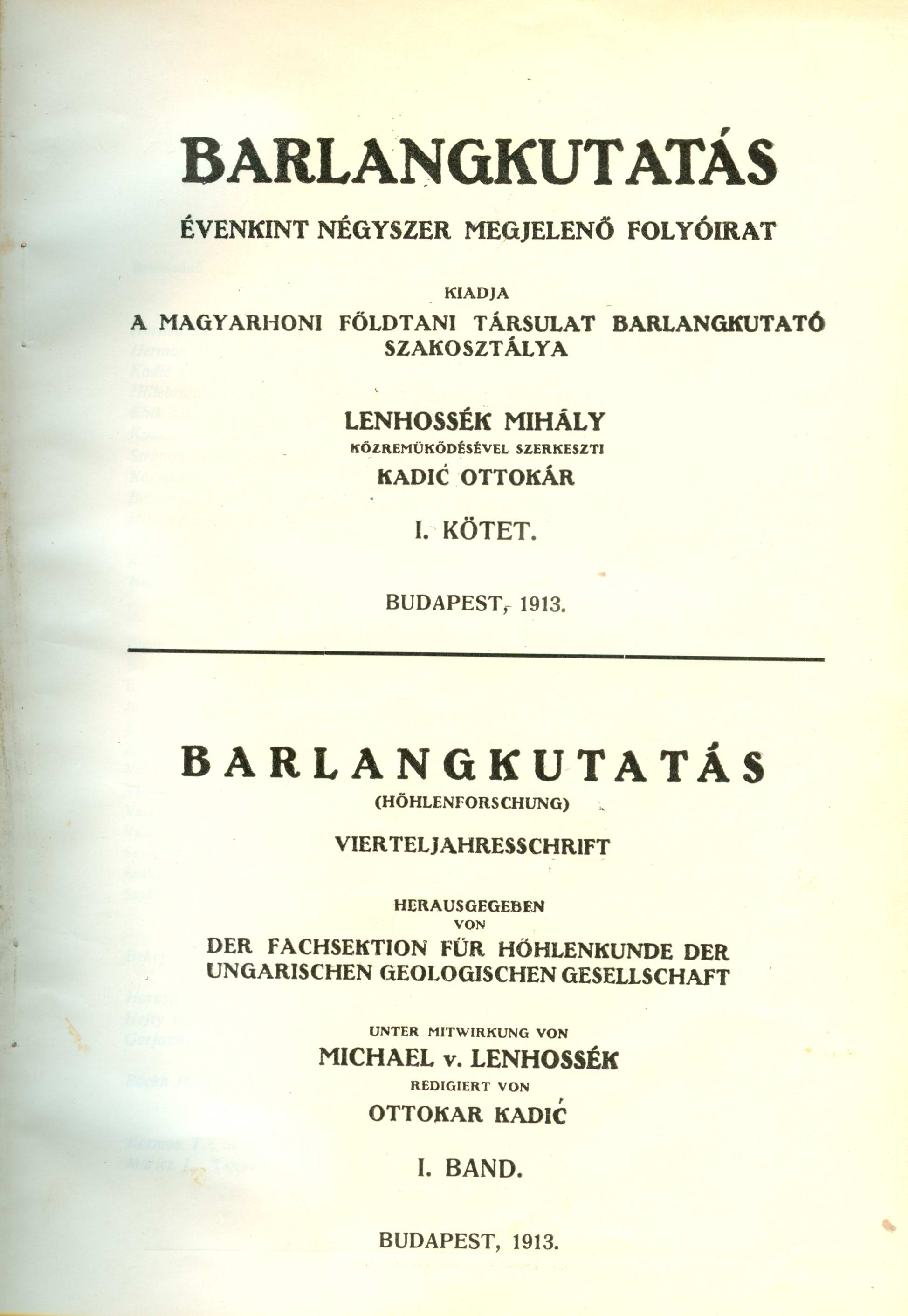 Front page of Barlangkutatás (Speleology) (first volume, from 1913)